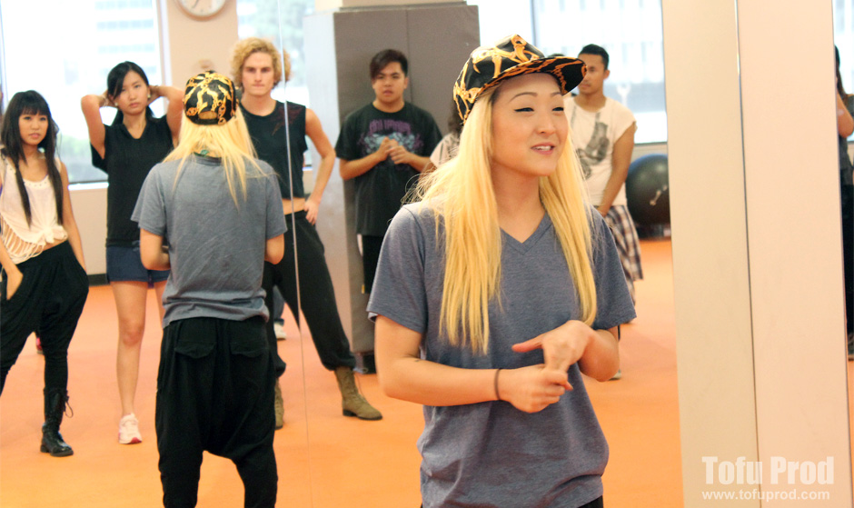 YG dancer and songwriter Lydia Paek